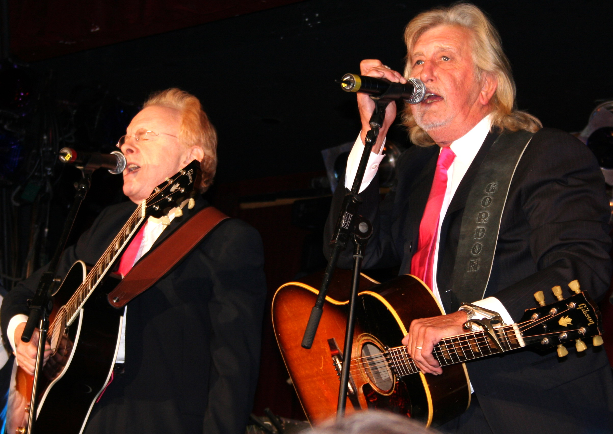 Peter and Gordon performing at a 2005 benefit for Mike Smith of the Dave Clark Five, who had been paralyzed in a fall at his home. Smith died of complications from the fall in 2008. Others attending the benefit were the Zombies, Billy J. Kramer, Denny Laine and Paul Shaffer (band leader of Late Show with David Letterman)